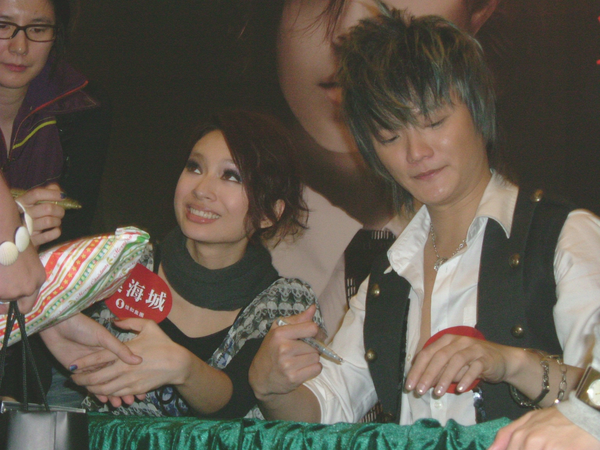 Faye & Real appear at Olympian City